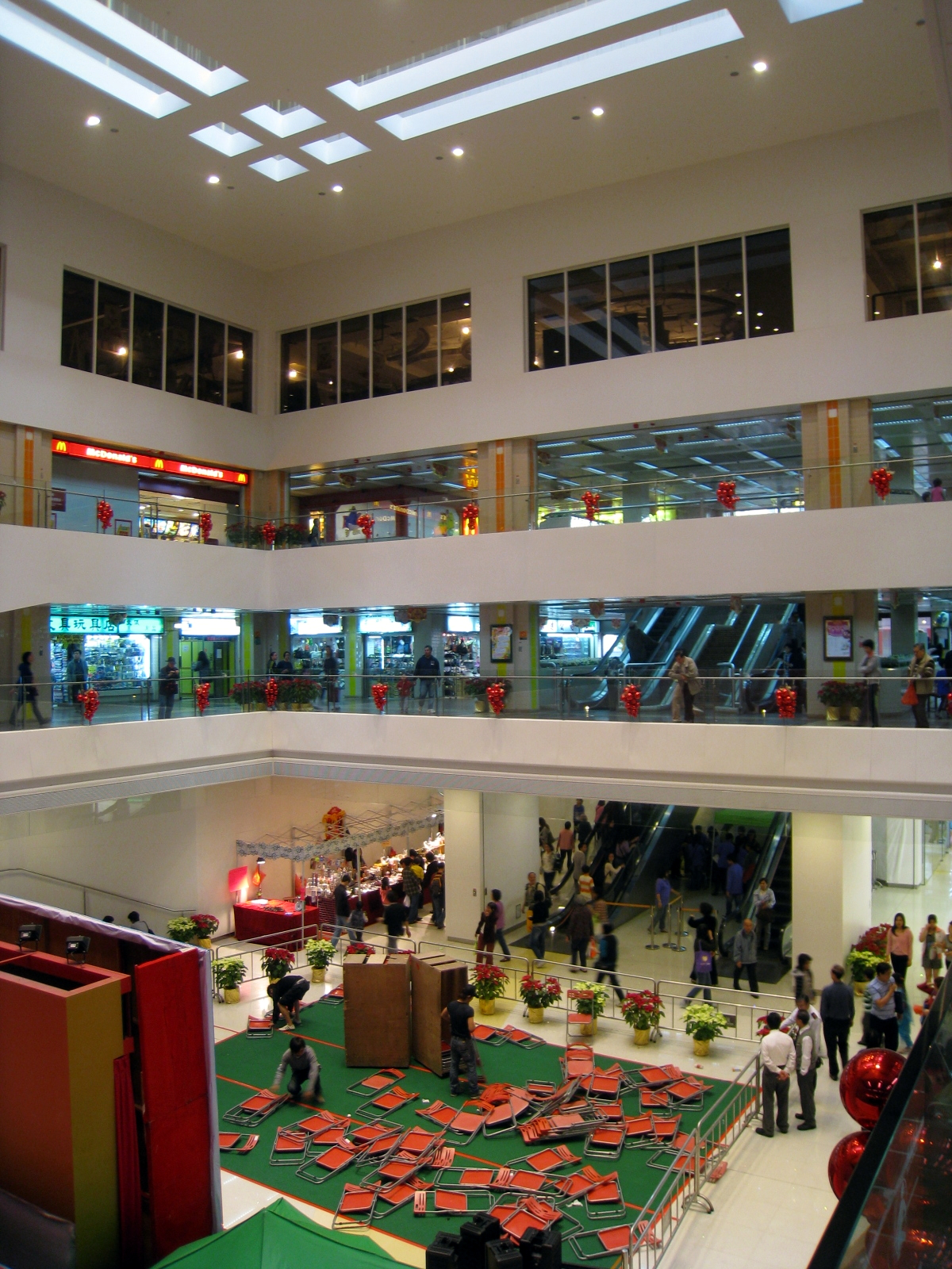 Cheung Fat Estate Shopping Centre Void 長發商場